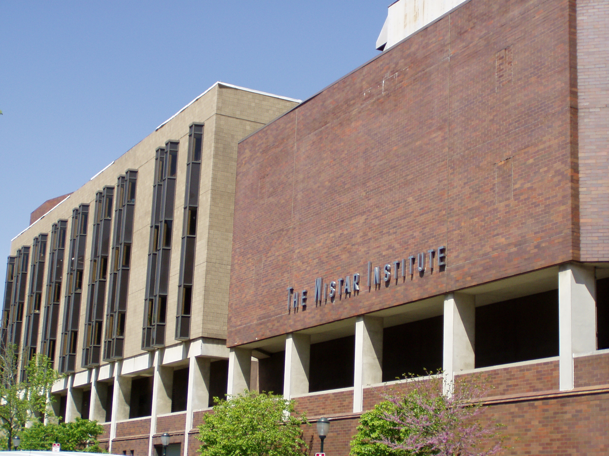 Taken in Philadelphia, Pennsylvania, in April 2006. The southern facade of the Wistar Institute in Philadelphia.